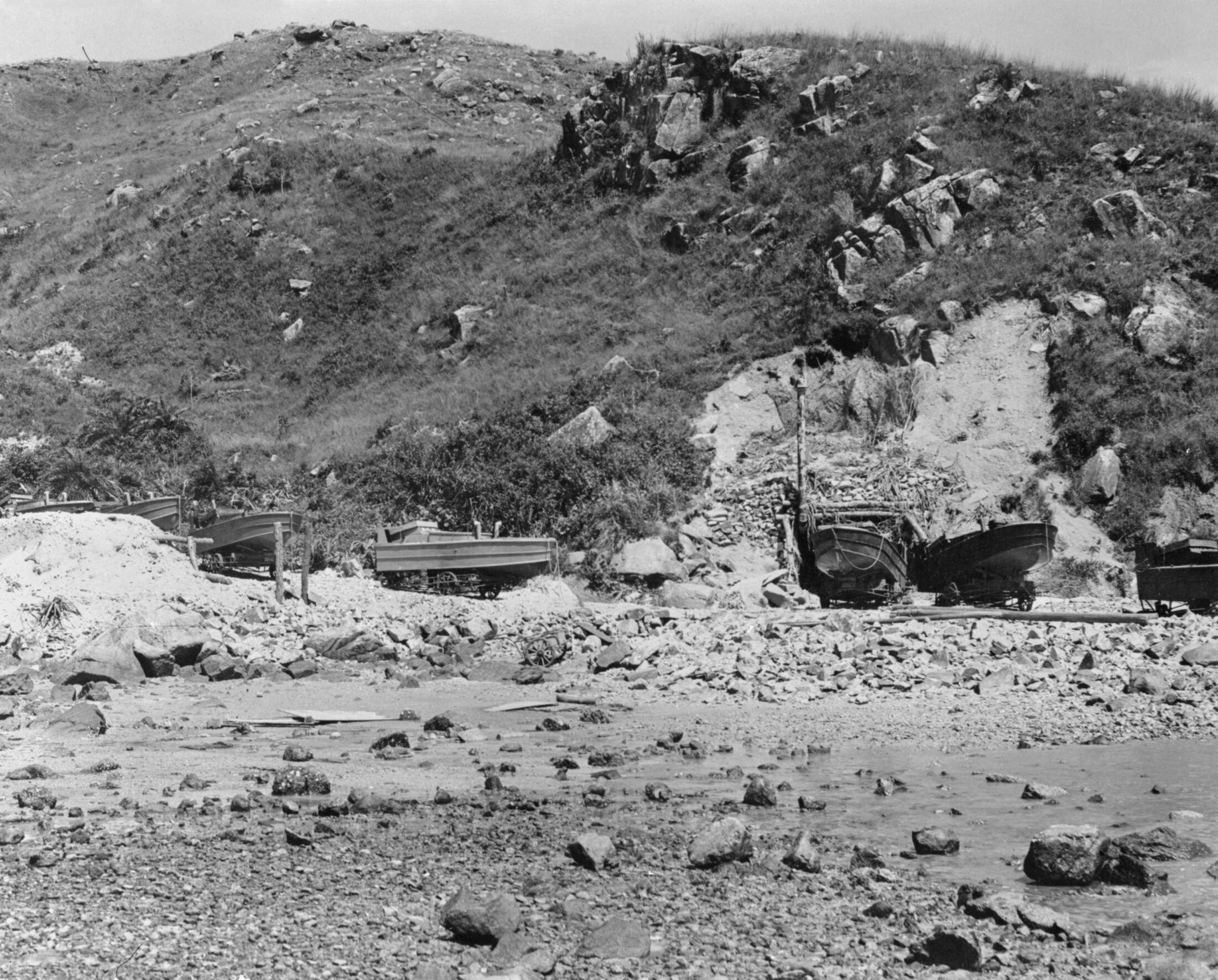 Scenes in Hong Kong Following the Re-occupation of the Crown Colony After the Japanese Surrender, September 1945 Kamikaze: Naval Weapons: Japanese fast motor boats, packed with high explosive and intended for use against allied shipping, found abandoned in Picnic Bay, Hong Kong after the surrender. These light wooden craft are about 25ft in length, painted green, and are ready in their launching trolleys.